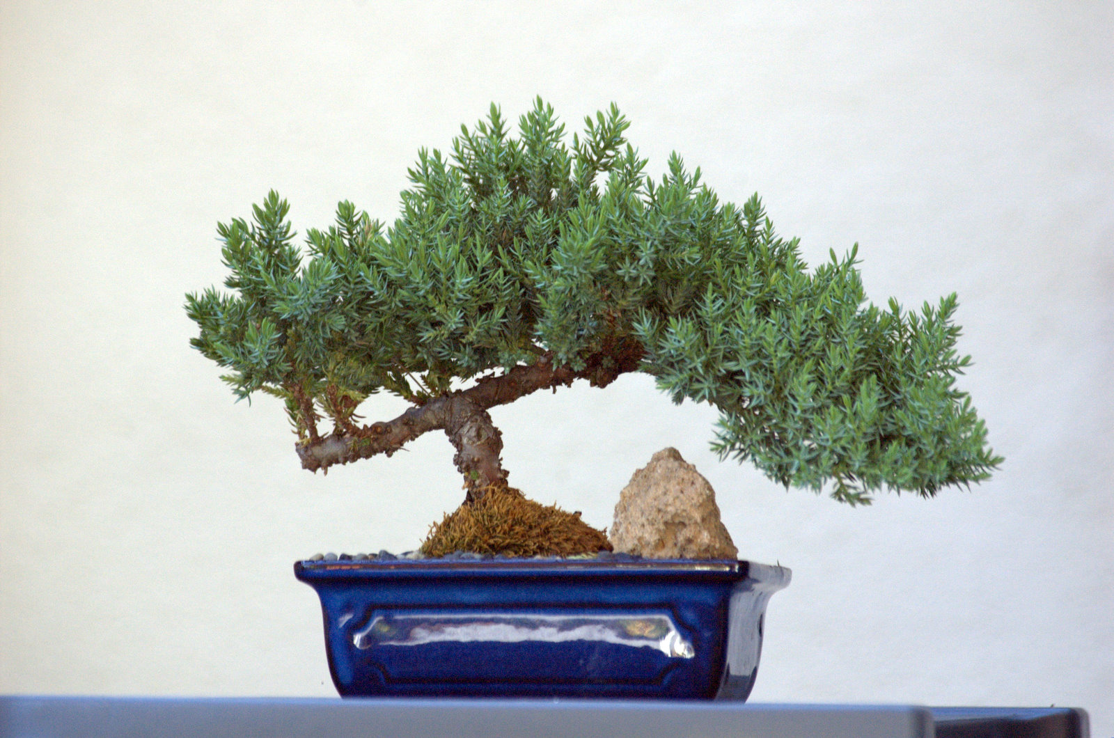 A small table top bonsai.